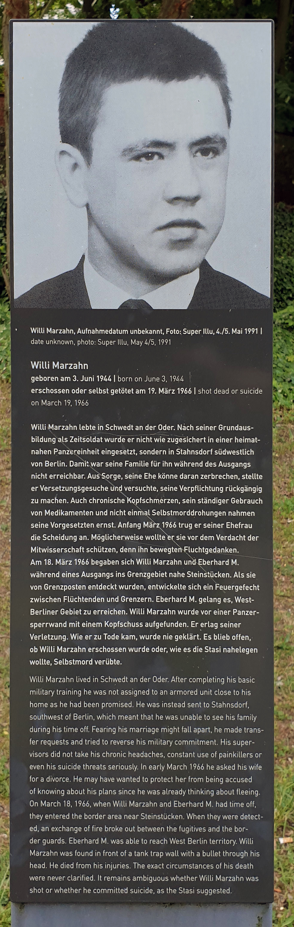 Memorial plaque, Willi Marzahn, Stubenrauchstraße 35, Babelsberg, Deutschland